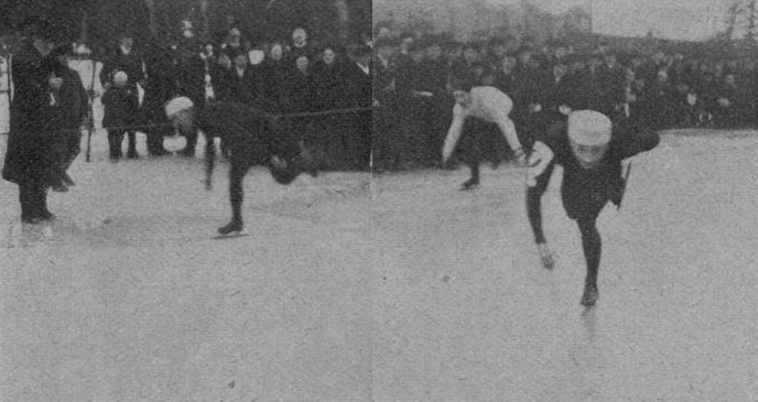 Speed skating at the 1910 Vyborg Winter Games in Finland. Nikolay Strunnikov of Russia and Oscar Mathisen of Norway.